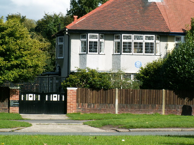 Mendips. "Mendips" on Menlove Avenue where John Lennon spent most of his childhood.